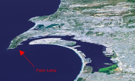 This is a 3D image provided by Nasa URL: Please replace this if you can improve it.